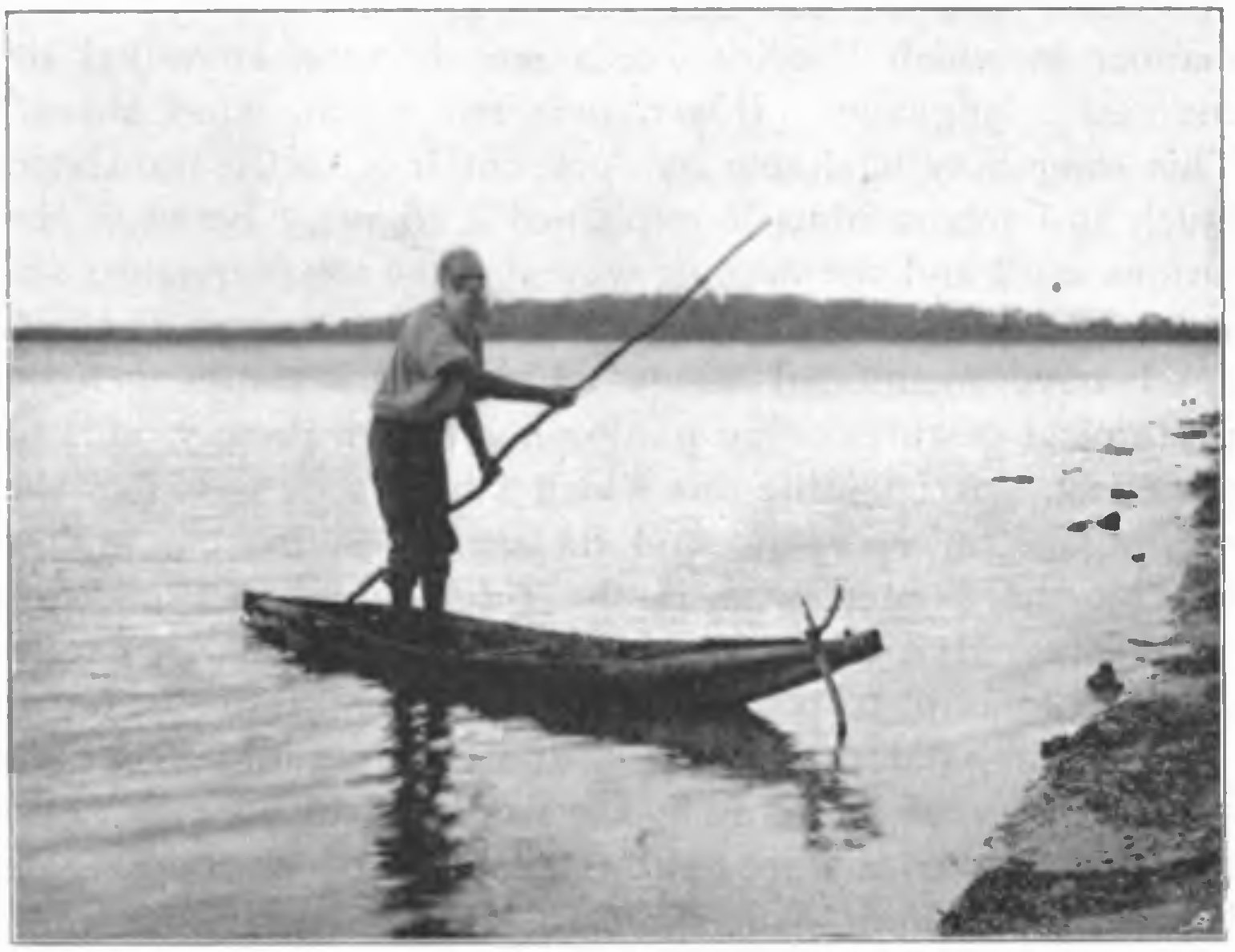 A Kurnai bark canoe